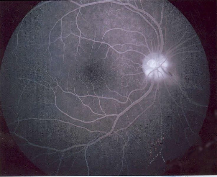 Black and white image of the retina during the effects of Fluorescein_angiography. (The ink of the image has smeared in the bottom right corner)